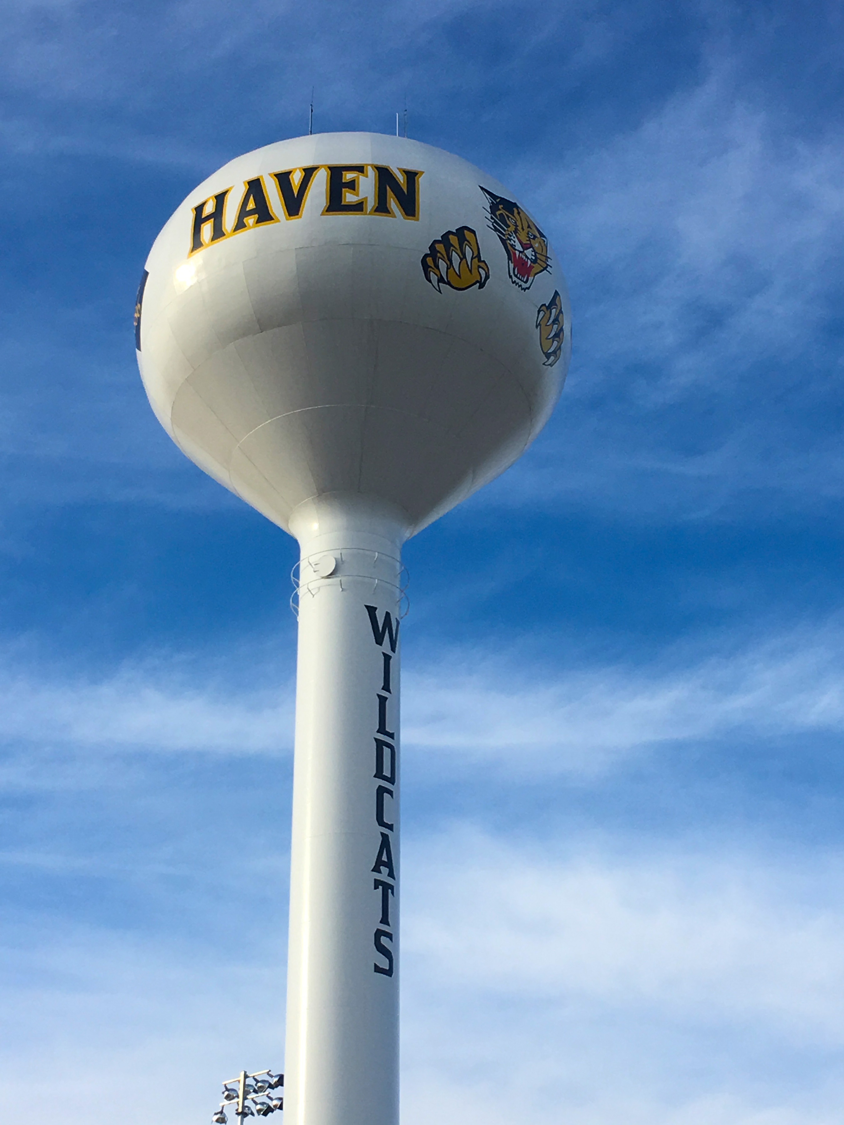 Haven Kansas Water Tower